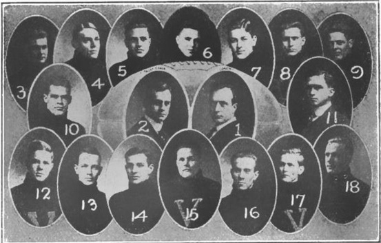 1914 Vanderbilt football team 1, Dan McGugin coach, 2, Owsley Manier assistant, 3, Warren, 4, Russ Cohen, 5, Robert Turner, 6, Northcutt, 7, George Reyer, 8, Kent Morrison, 9, Reams, 10, Emmett Putnam, 11, Cleveland, 12, Martin Chester, 13, Chester Huffman, 14, Charles Carman, 15, Tom Lipscomb, 16, Rabbit Curry, 17, Charles Brown, 18, Ammie Sikes (Capt.)